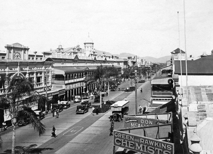 Flinders Street, Townsville, Townsville, NQ.